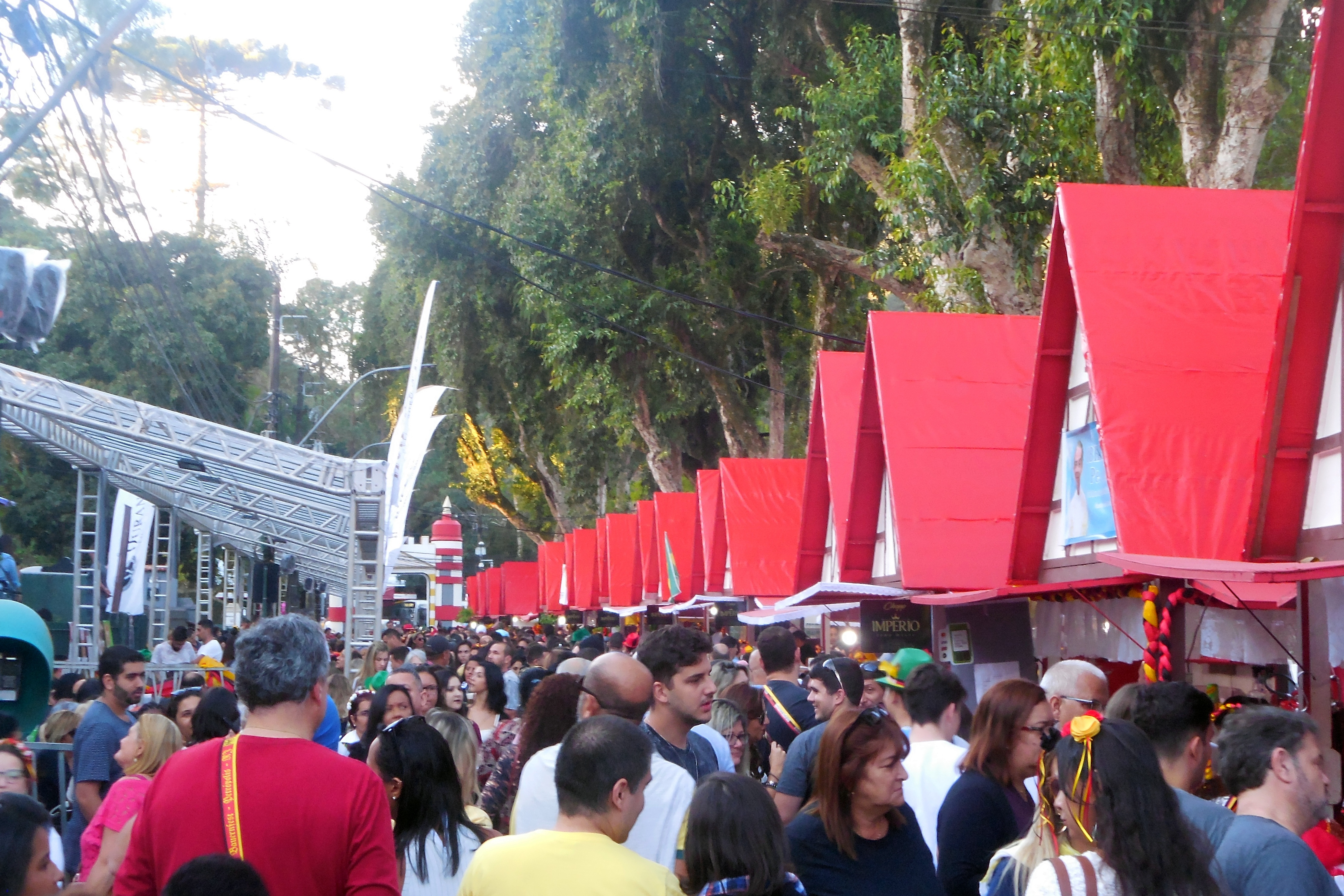 Flow of people in the Bauernfest 2018, in Petrópolis, Rio de Janeiro, Brazil.